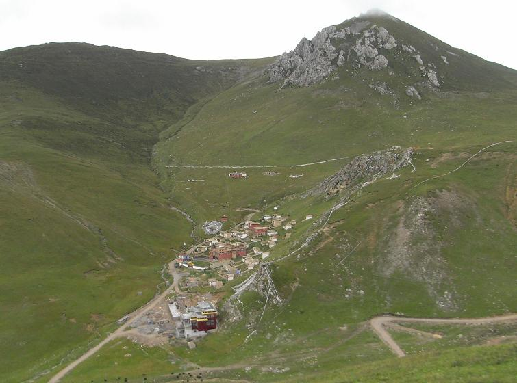 A panoramic view of Nedo Gompa in Yushu (Chin. Dangkanaido Si)